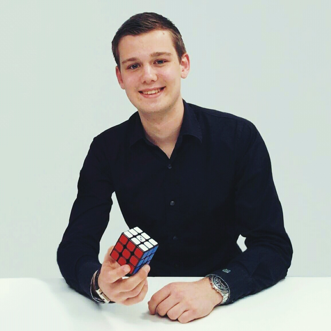 Mats Valk